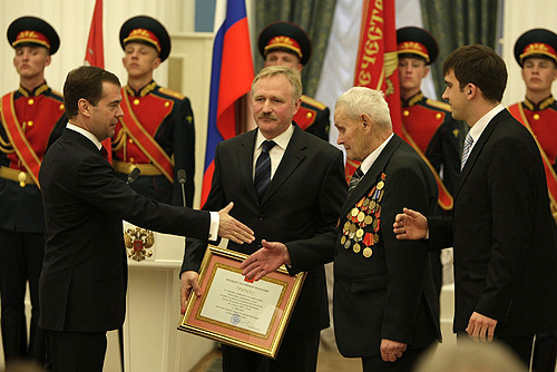 THE KREMLIN, MOSCOW. At the ceremony presenting the certificate conferring the title of City of Military Glory on Vyazma to the town’s representatives.